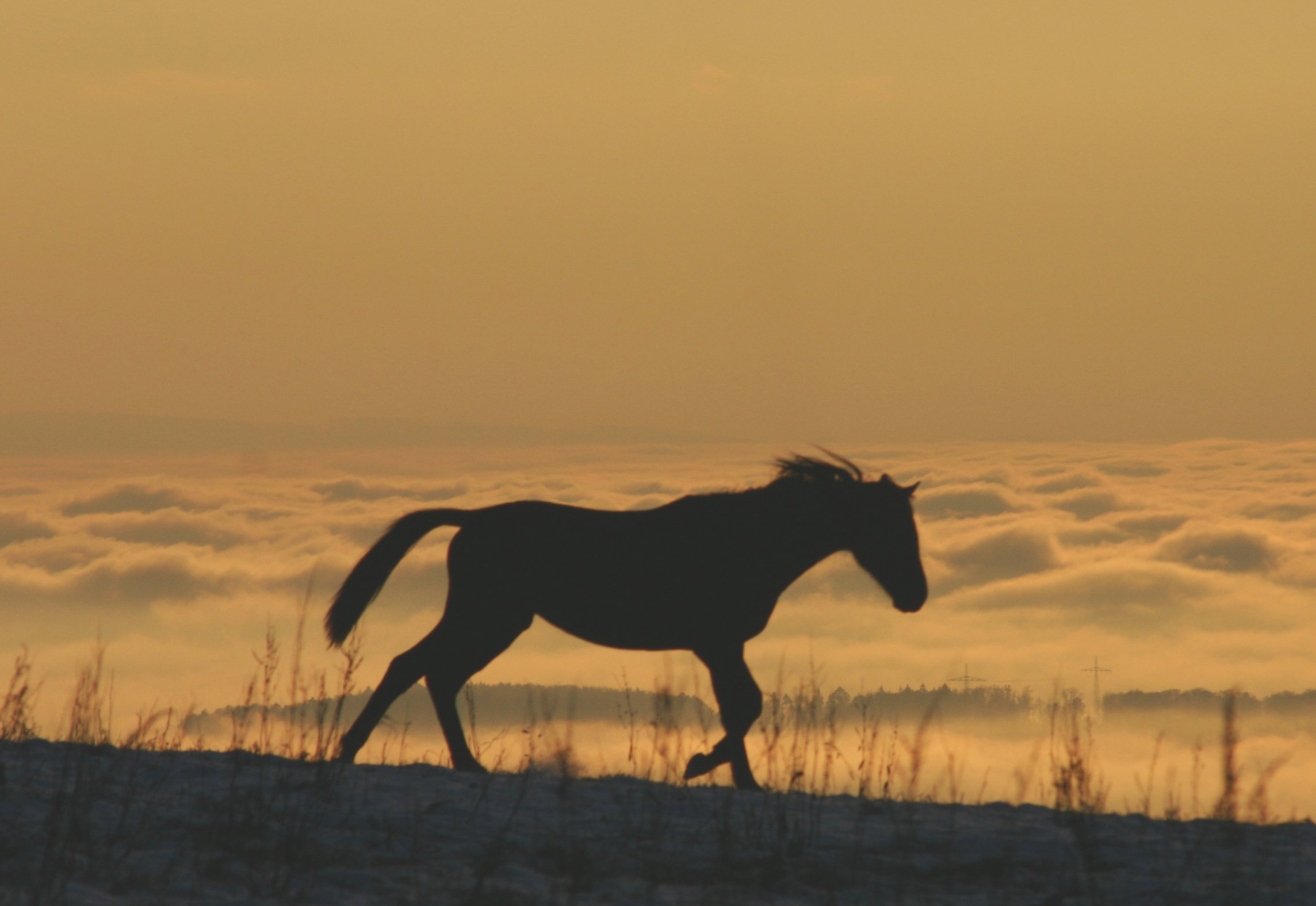 Horse on the Gehrenberg, near Deggenhausertal-Wendlingen, district Bodenseekreis, Baden-Württemberg, Germany.